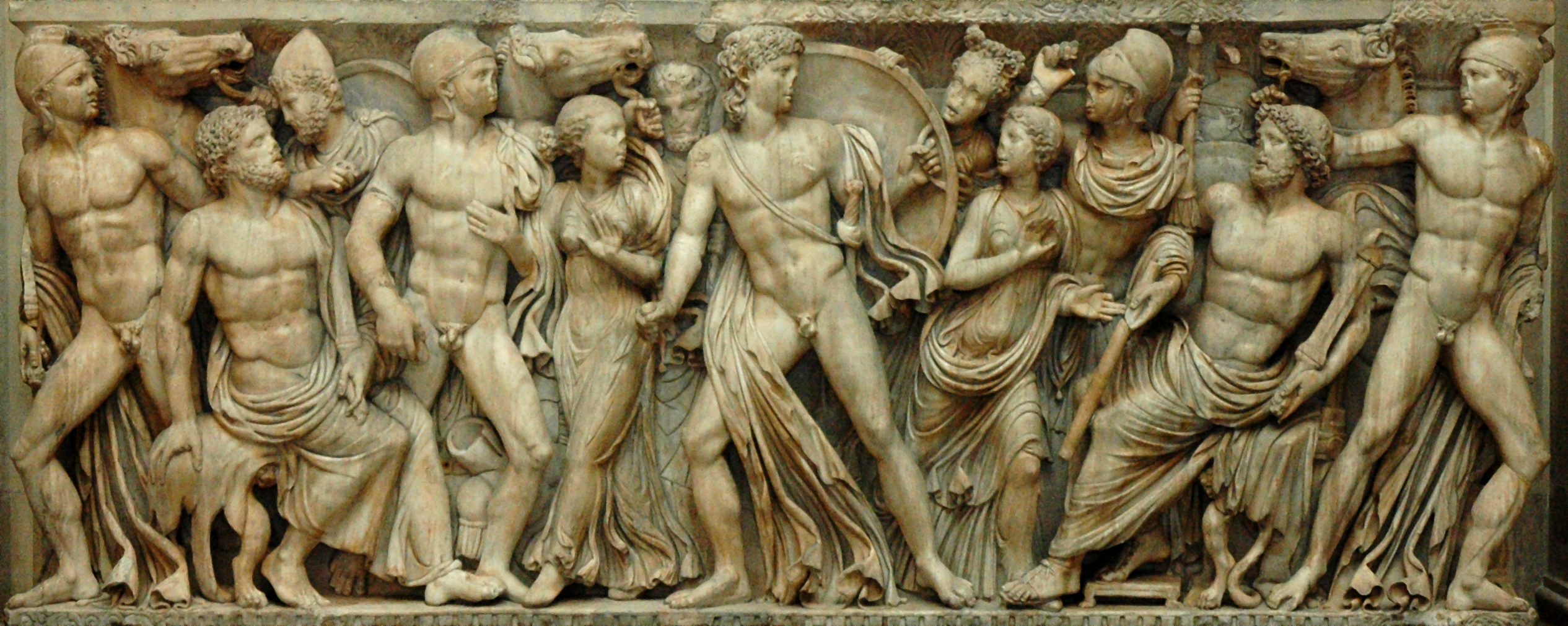 Achilles at the court of King Lycomedes, detail. Marble, Roman artwork, ca. 240 CE. From Rome (?).